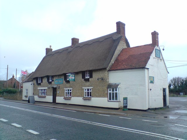 The White Hart Pub, Grafton Regis The White Hart Pub on the A508 at Grafton Regis